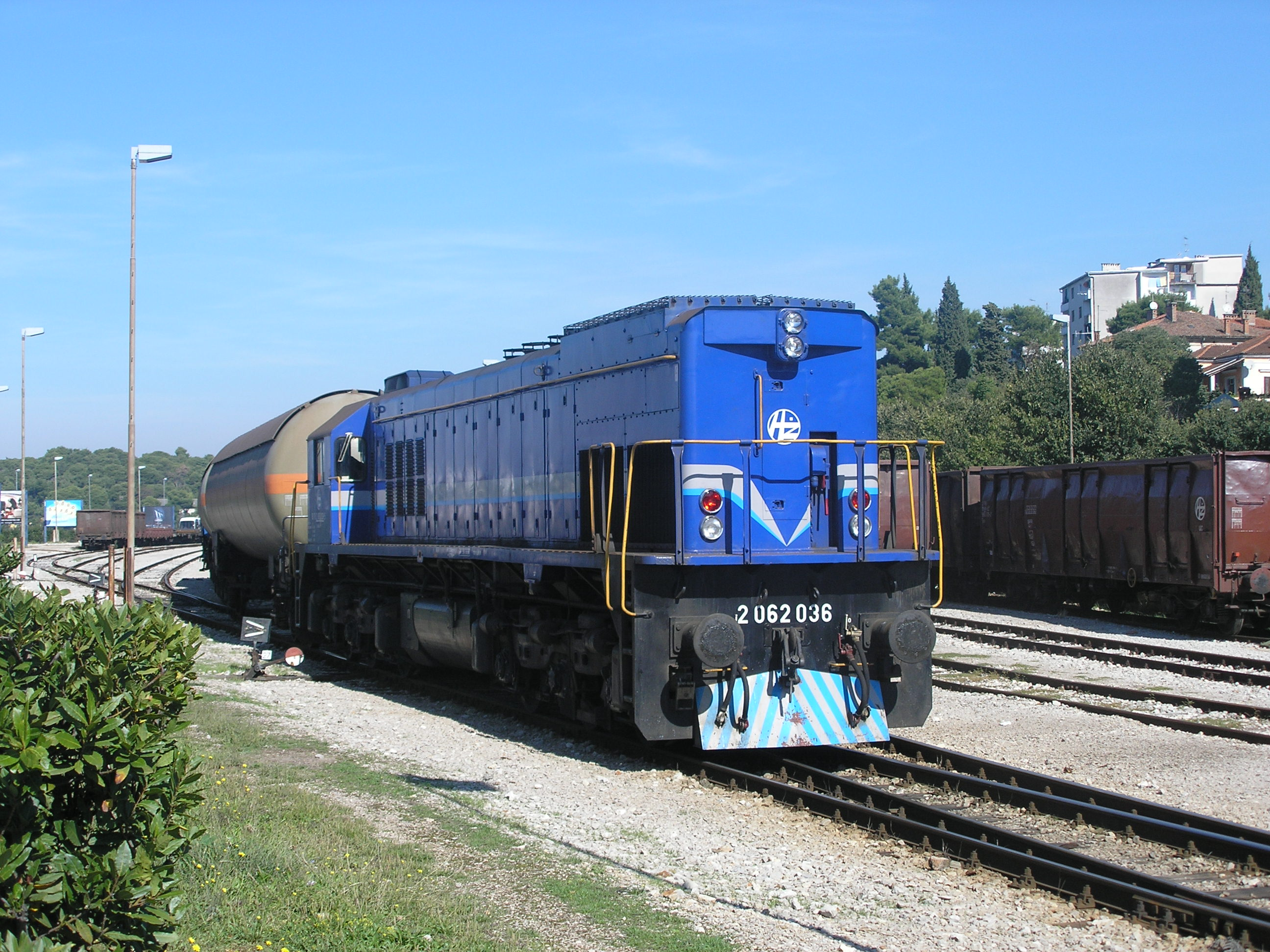 2062 036 locomotive (EMD G26) in Pula, Croatia